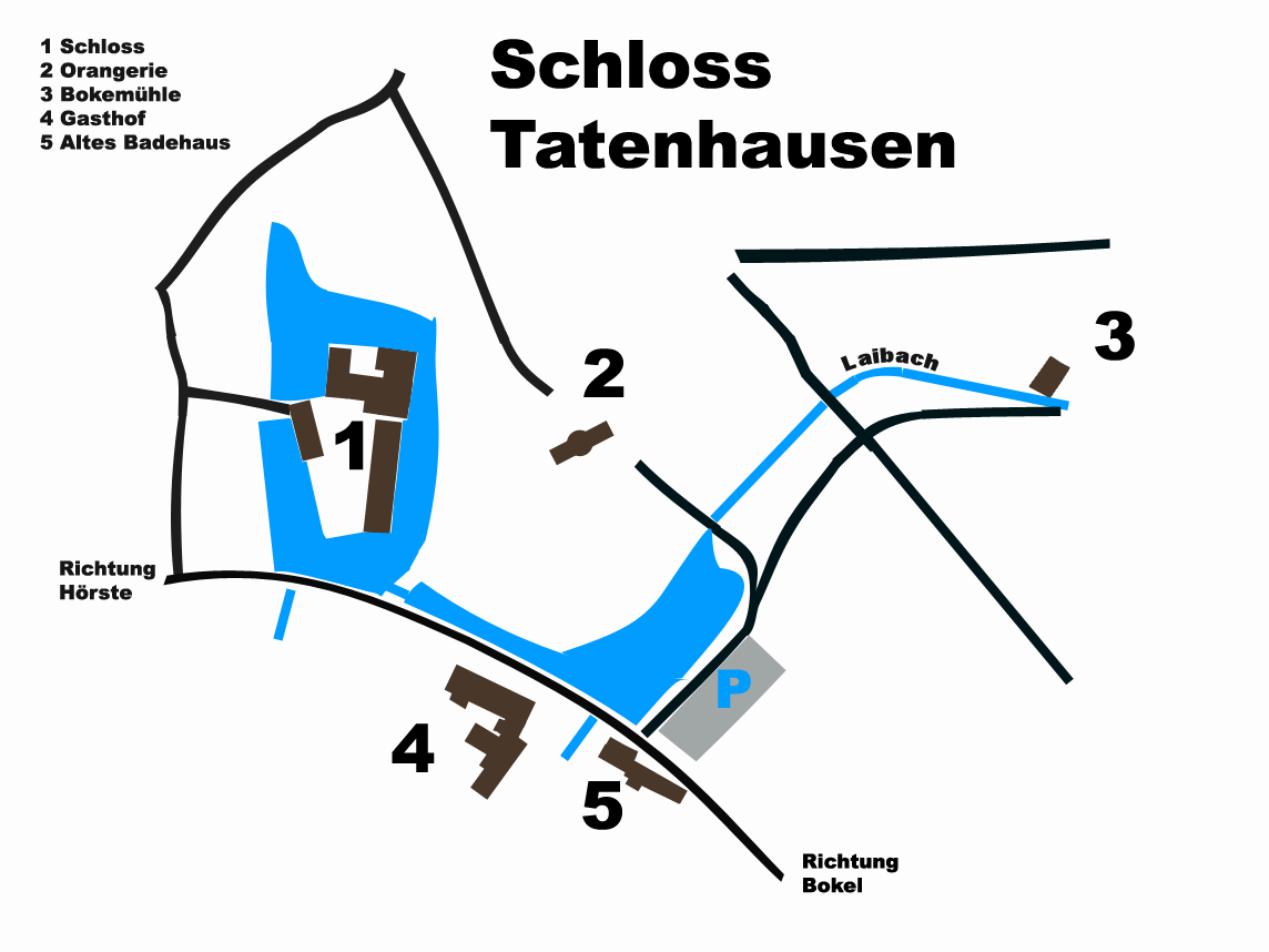 schematic map of moat castle Tatenhausen in Halle (Westfalen)